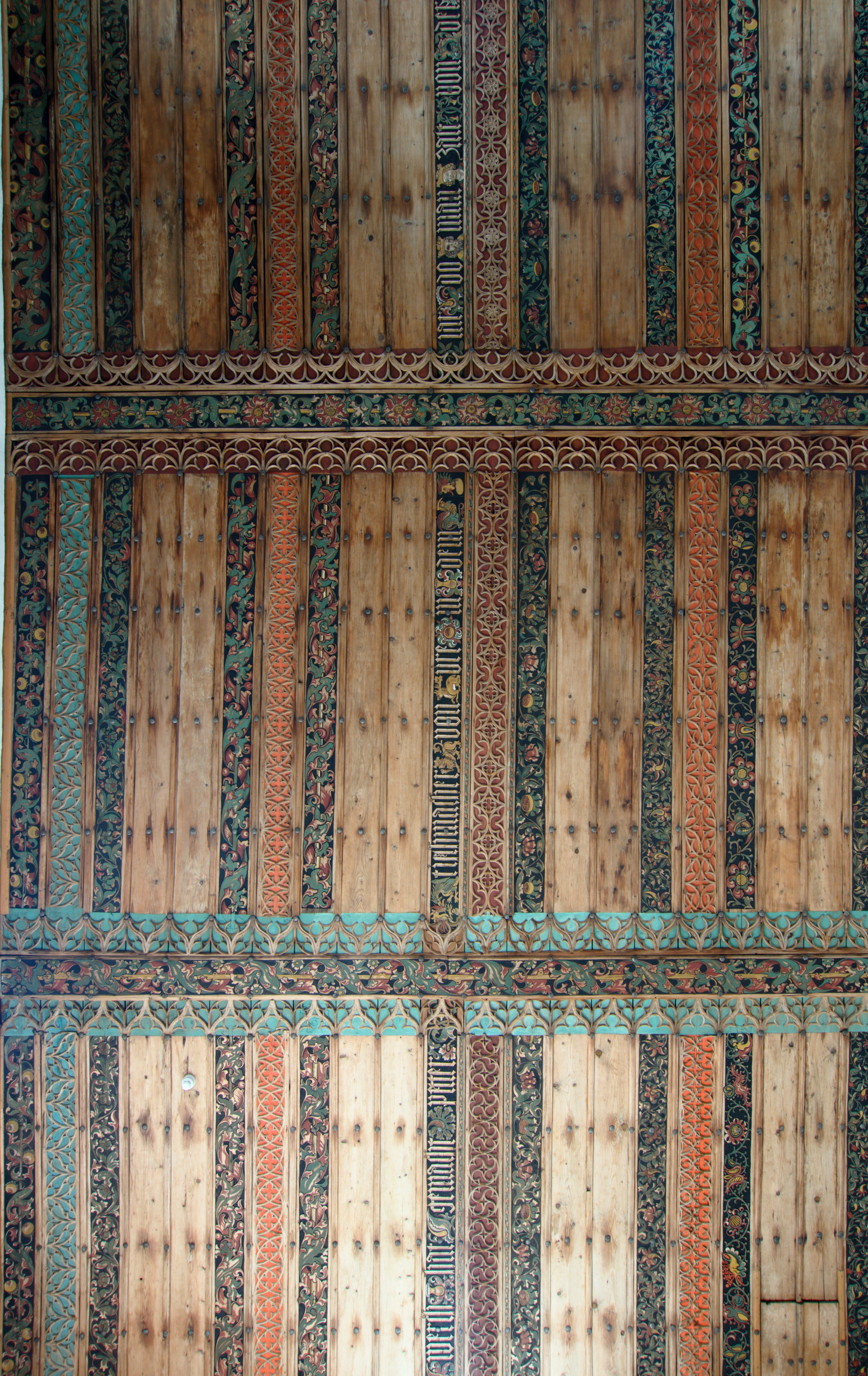 Wooden ceiling in the charnel house chapel of St. Peter and Paul, Sarnen